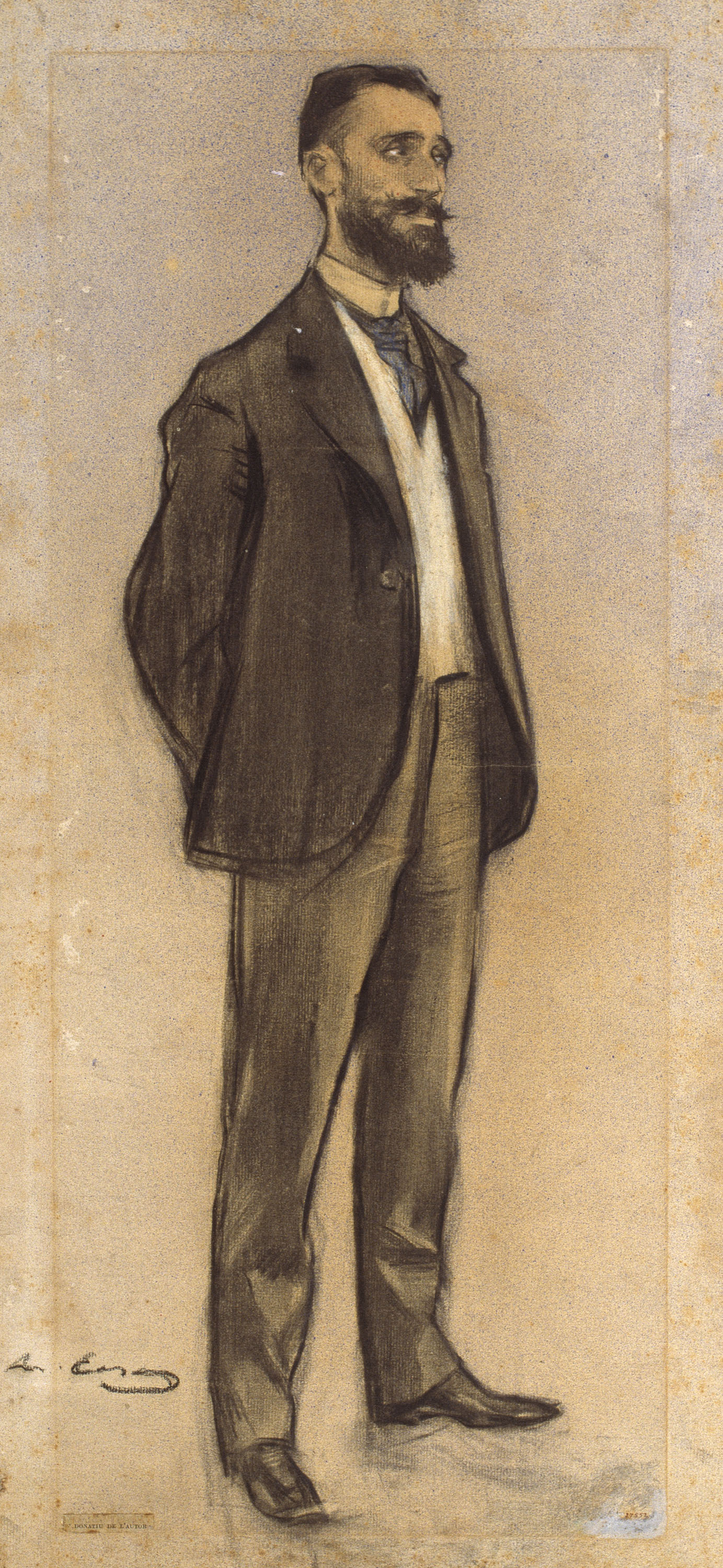 Portrait by Ramon Casas conserved at MNAC in Barcelona. Imagen 048